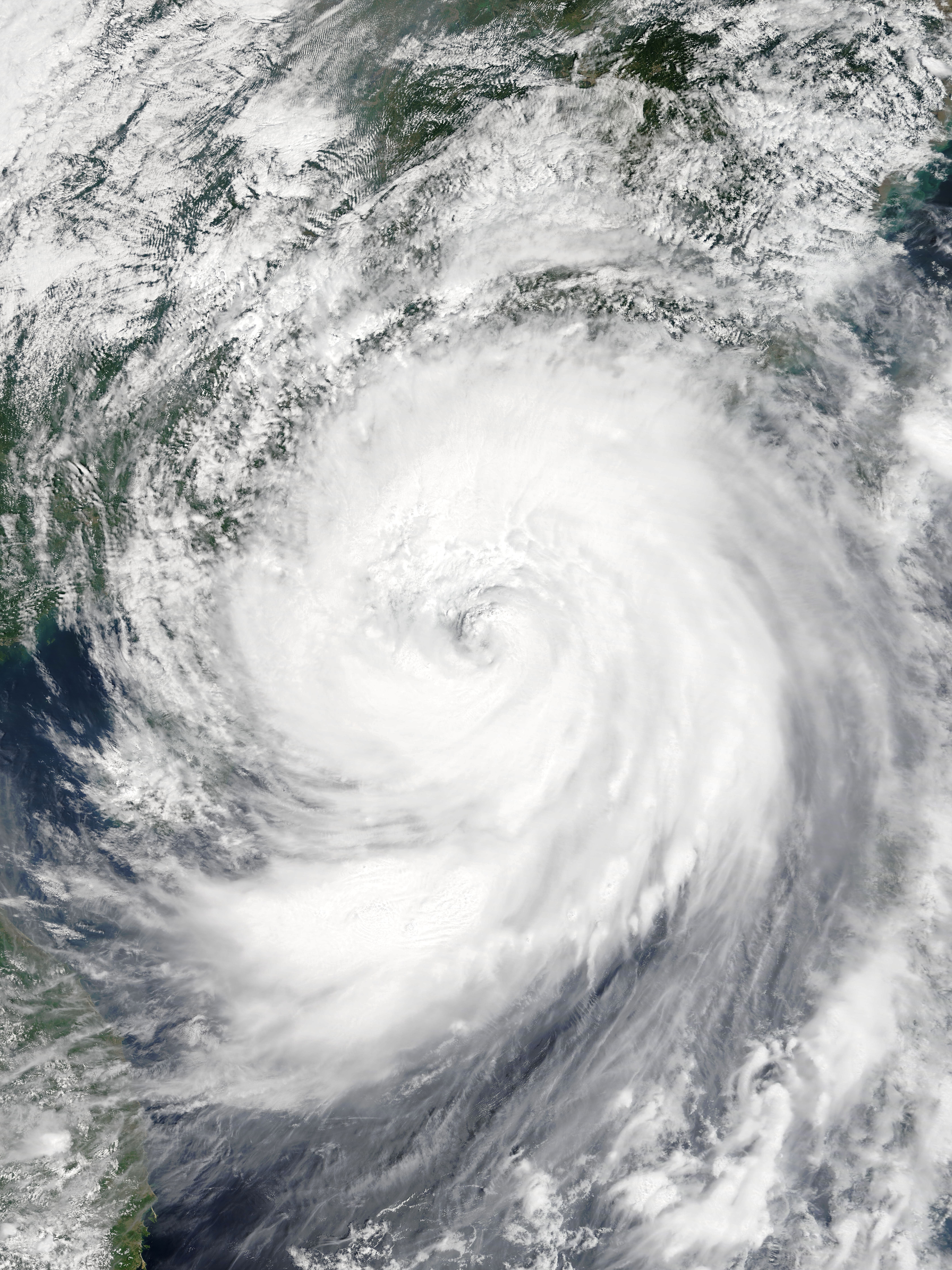 Typhoon Mangkhut approaching Guangdong on September 16, 2018.